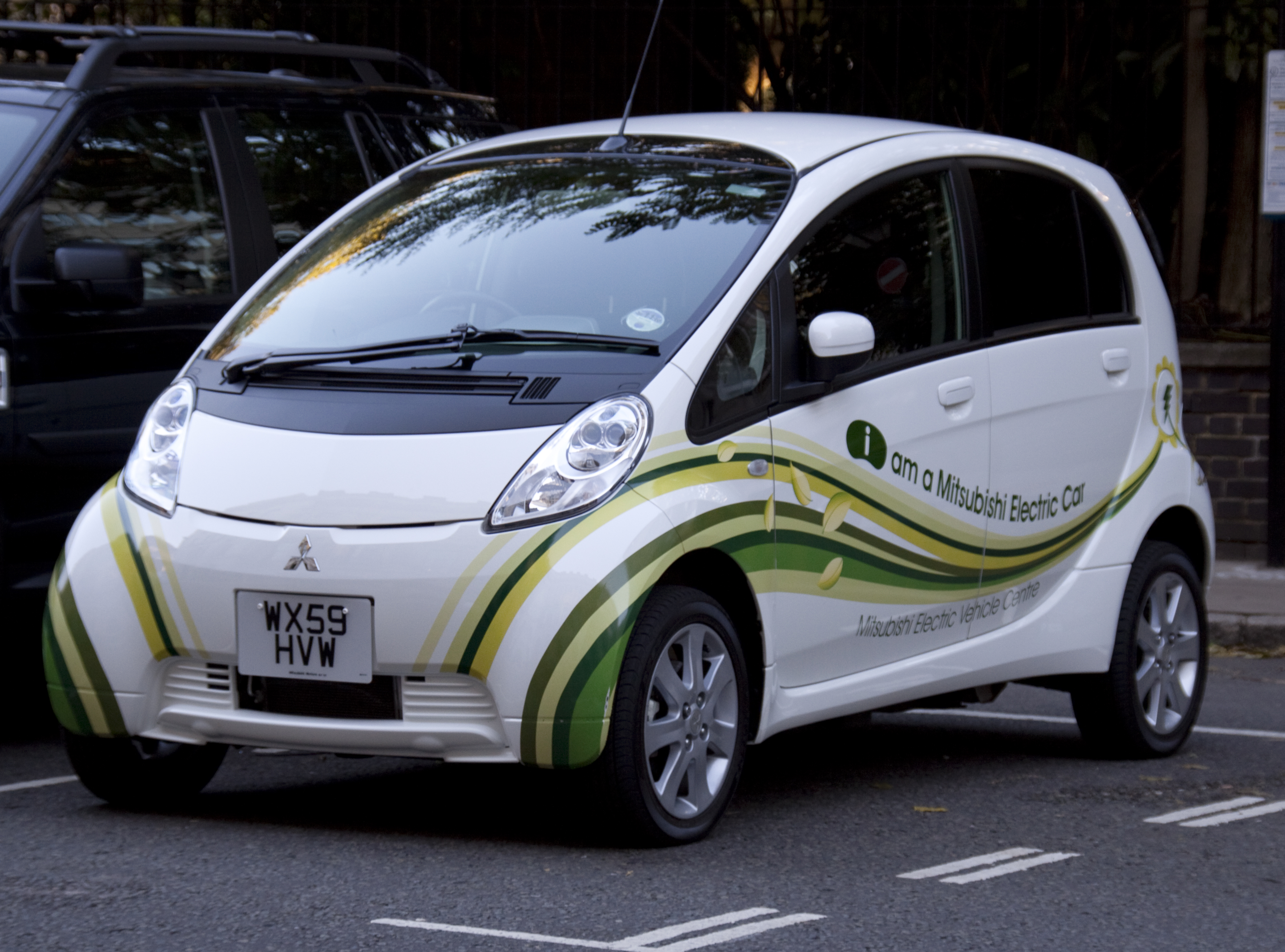 Mitsubishi Electric Car